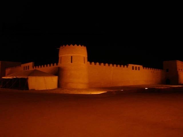 Riffa Fort at night. Photography: Shijaz Abdulla / Shijaz